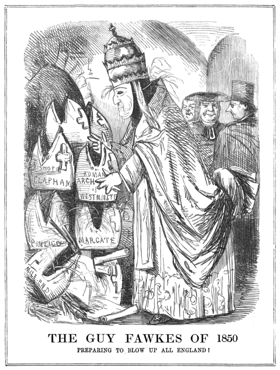 The Guy Fawkes of 1850 - a commentary on the restoration of the Catholic hierarchy in England, in 1850